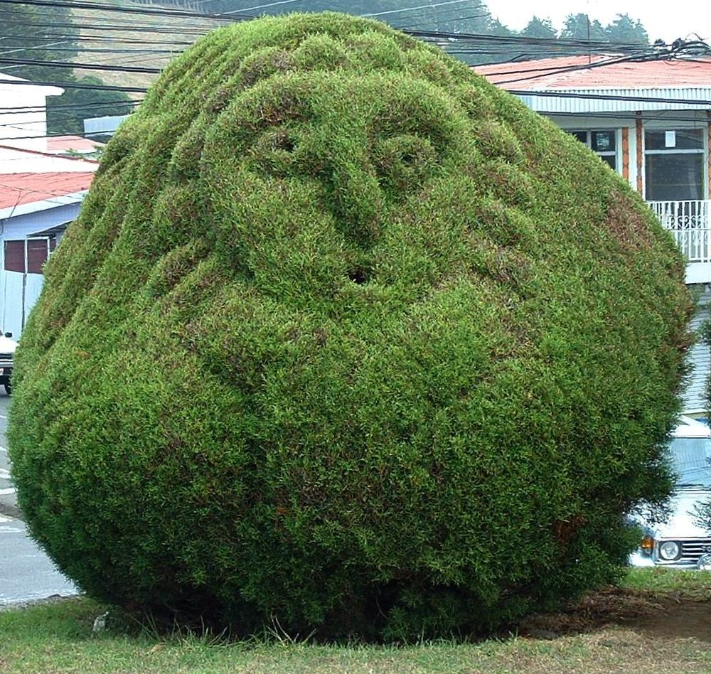 Topiary work at Parque Francisco Alvarado, Zarcero, Costa Rica